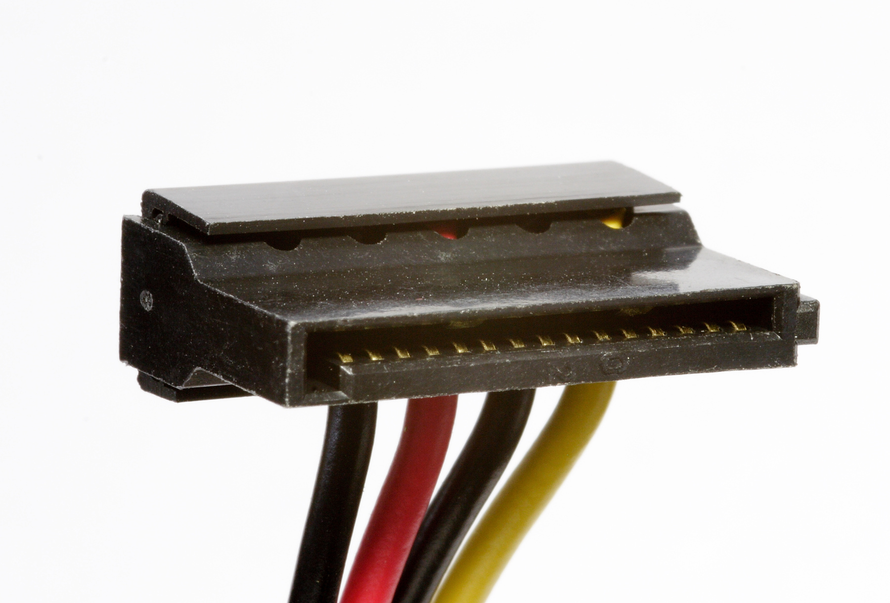 SATA Power Plug without 3.3V cable